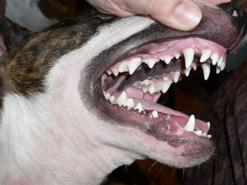 Bull Terrier: Teeth